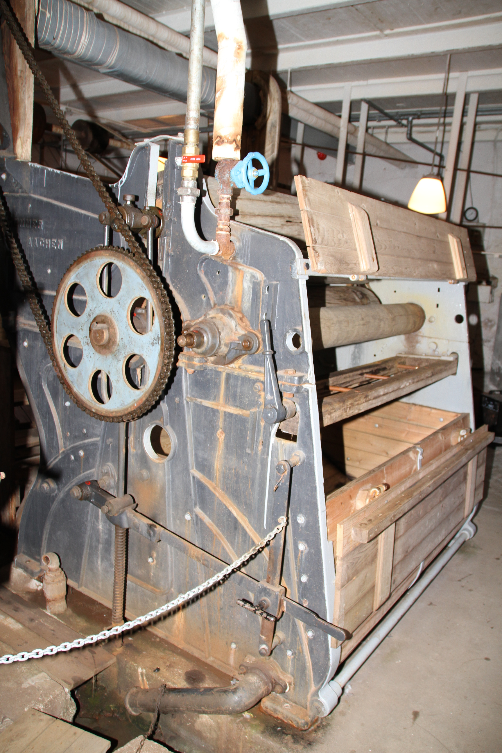 Image from the Sjøllingstad Wool Textile Factory, a living industry museum near Mandal, Vest-Agder county, Norway. This waulking machine was produced by the L(eopold) Ph(illipp) Hemmer G.M.B.H. Maschinen für Walke und Wäsche in the city of Aachen, western Germany.